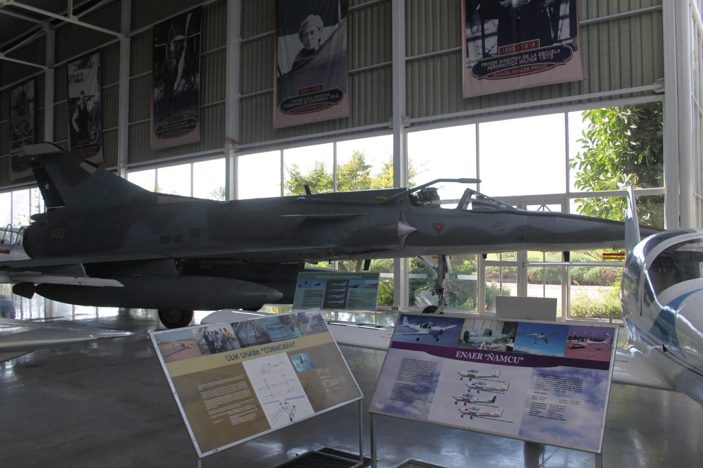 At Santiago Los Cerillos